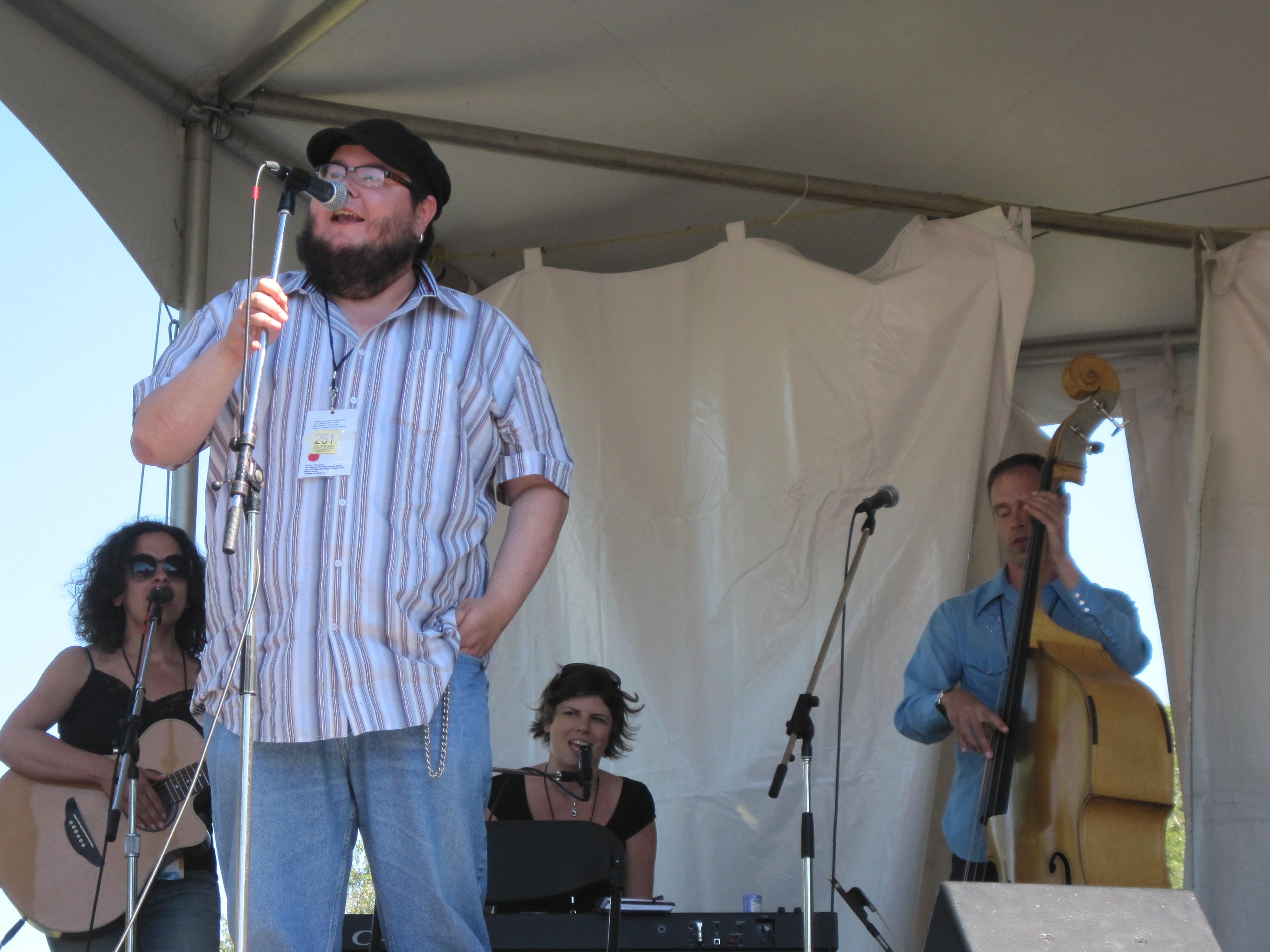 Shane Koyczan and the Short Story Long